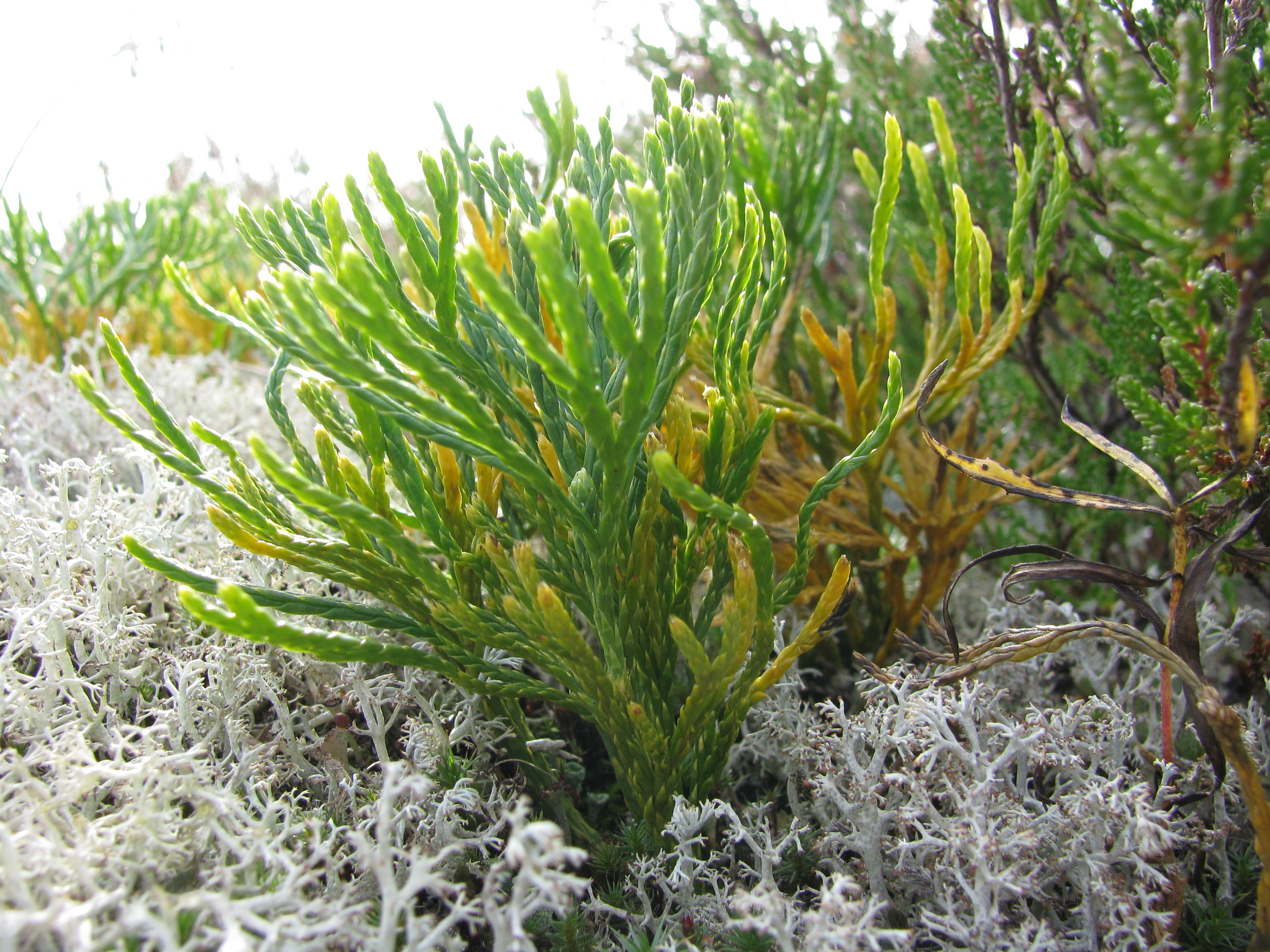 Diphasiastrum tristachyum